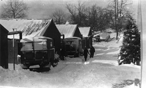 Telecommunications Research Establishment Malvern huts in winter 1942-1943.